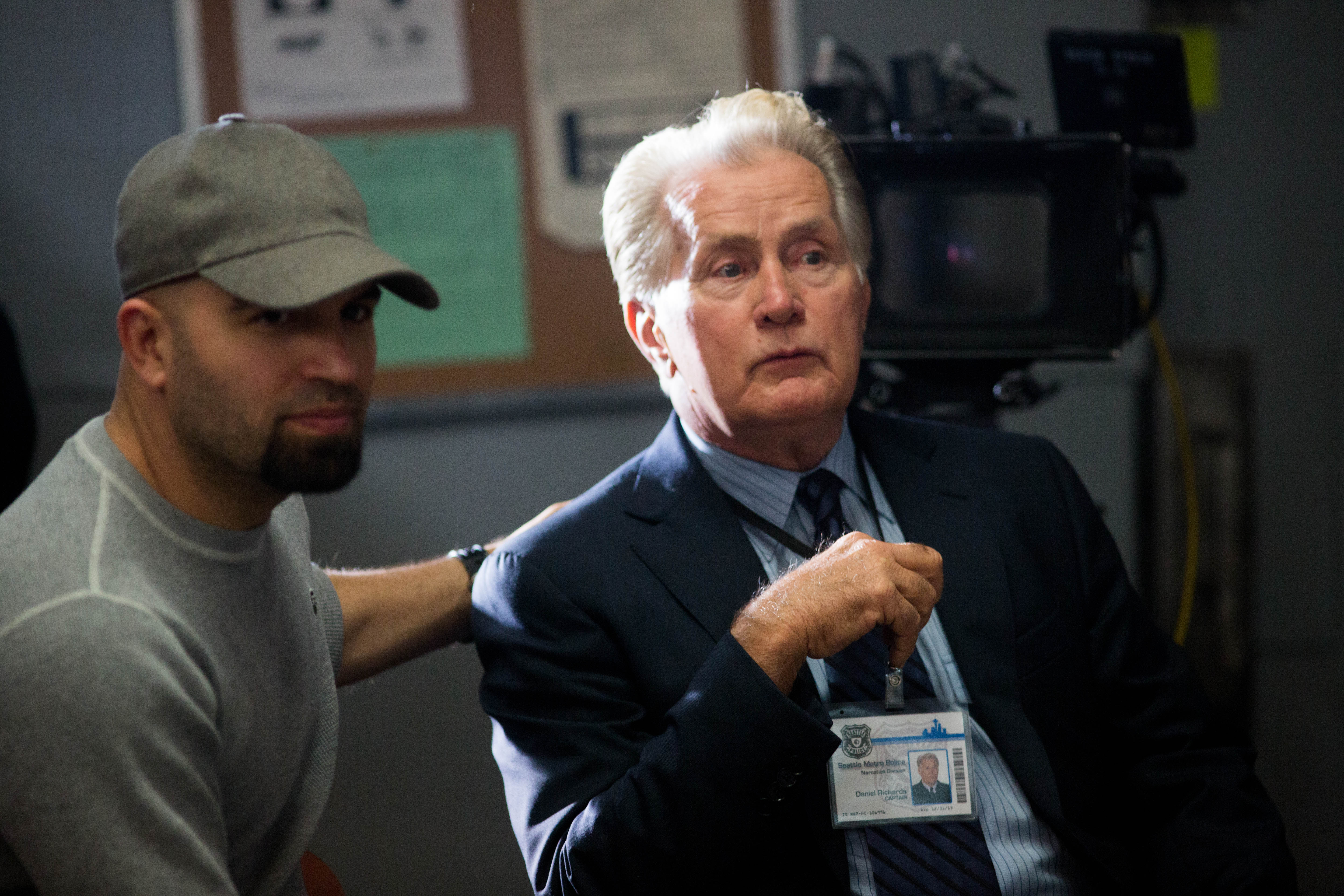 AGUSTIN Y MARTIN SHEEN on the set of BADGE OF HONOR